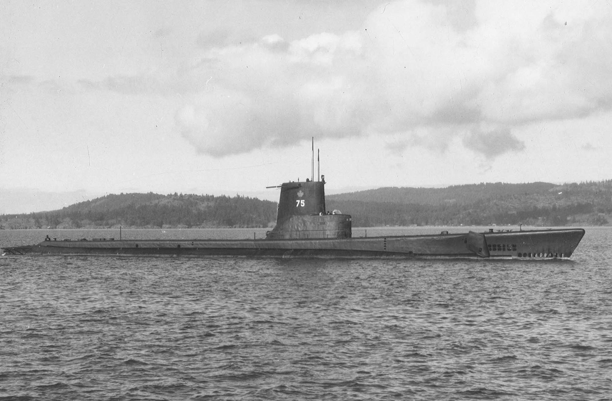 The Royal Canadian Navy submarine